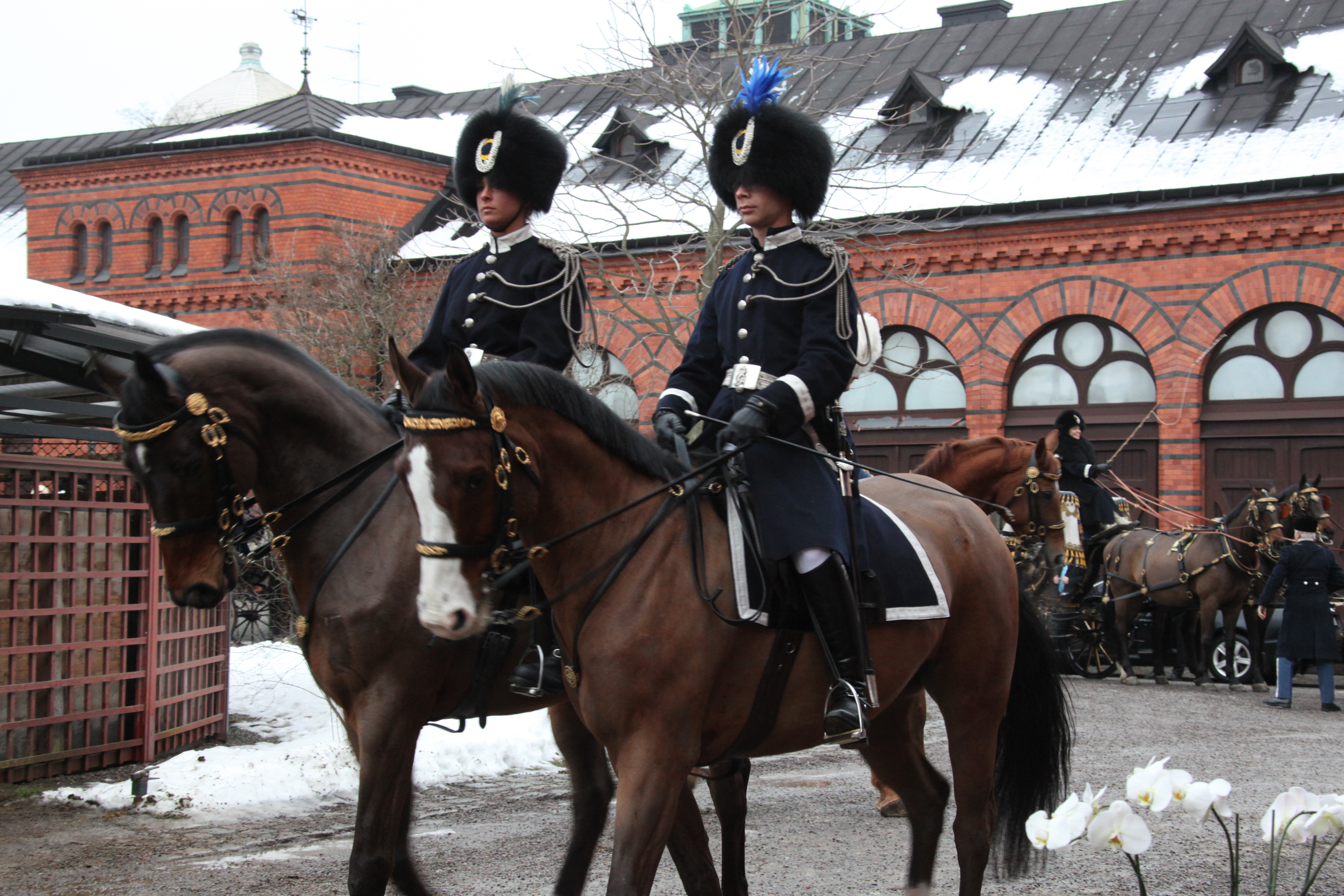 State visit to Stockholm, Sweden, 19-19-20-January 2011